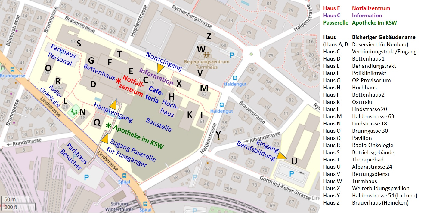 Kantonsspital Winterthur (superimposed onto OpenStreetMap)